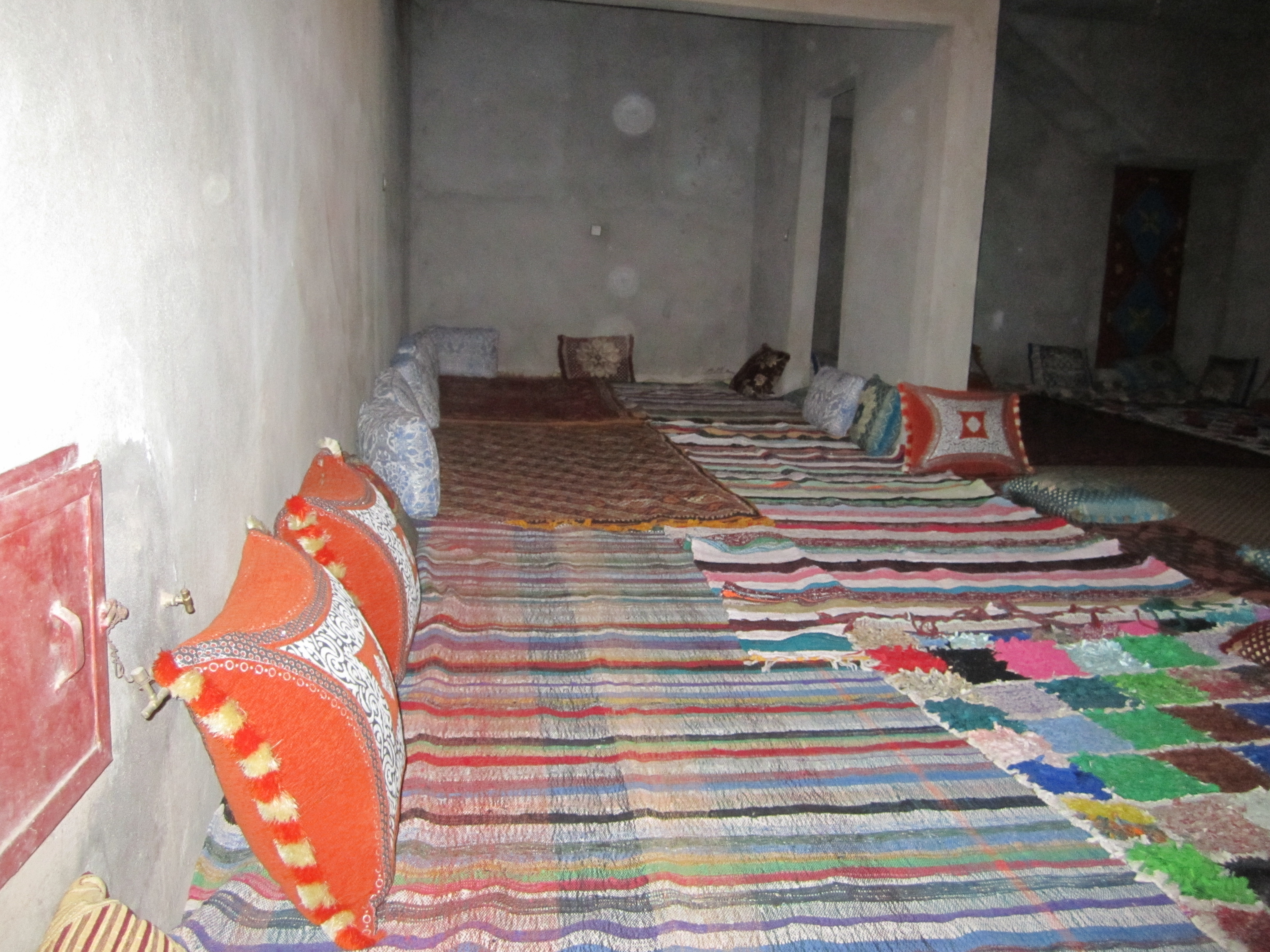 This image is where guests sit This is an image with the theme "Africa on the Move or Transport" from: Morocco